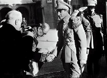 Mohammad Reza Pahlavi on his way to the Parlament of Iran, for inauguration; had welcomed by Mohammad-Ali Foroughi.